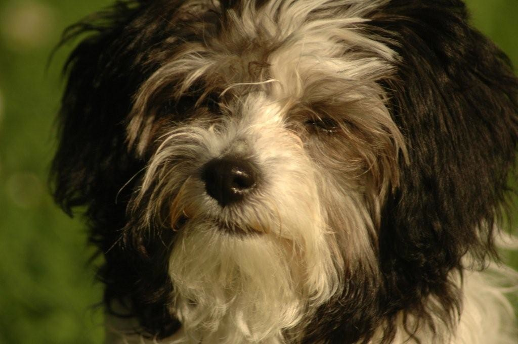 Bolonka Zwetna 6 month old